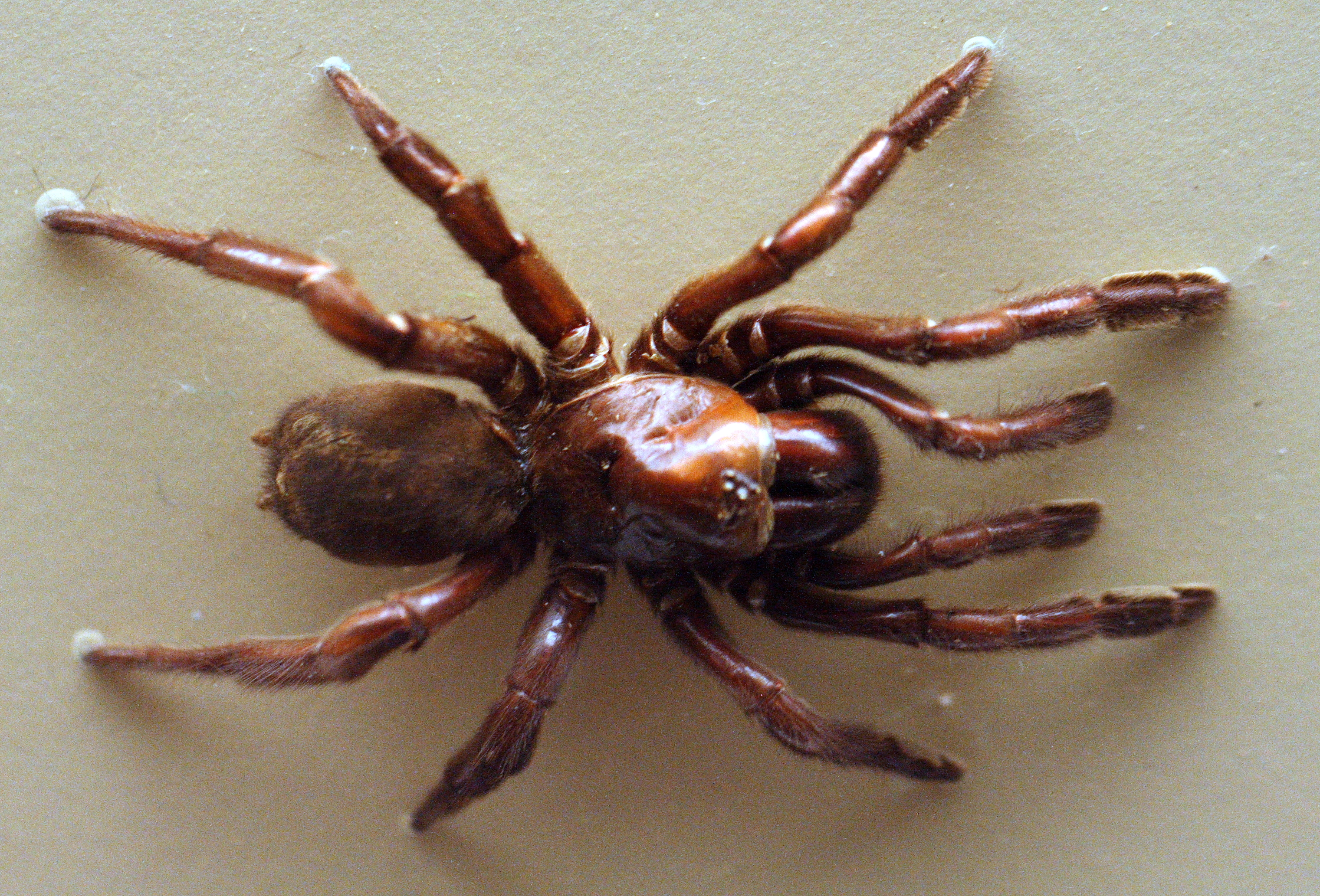 Specimen in the Australian Museum spider display.